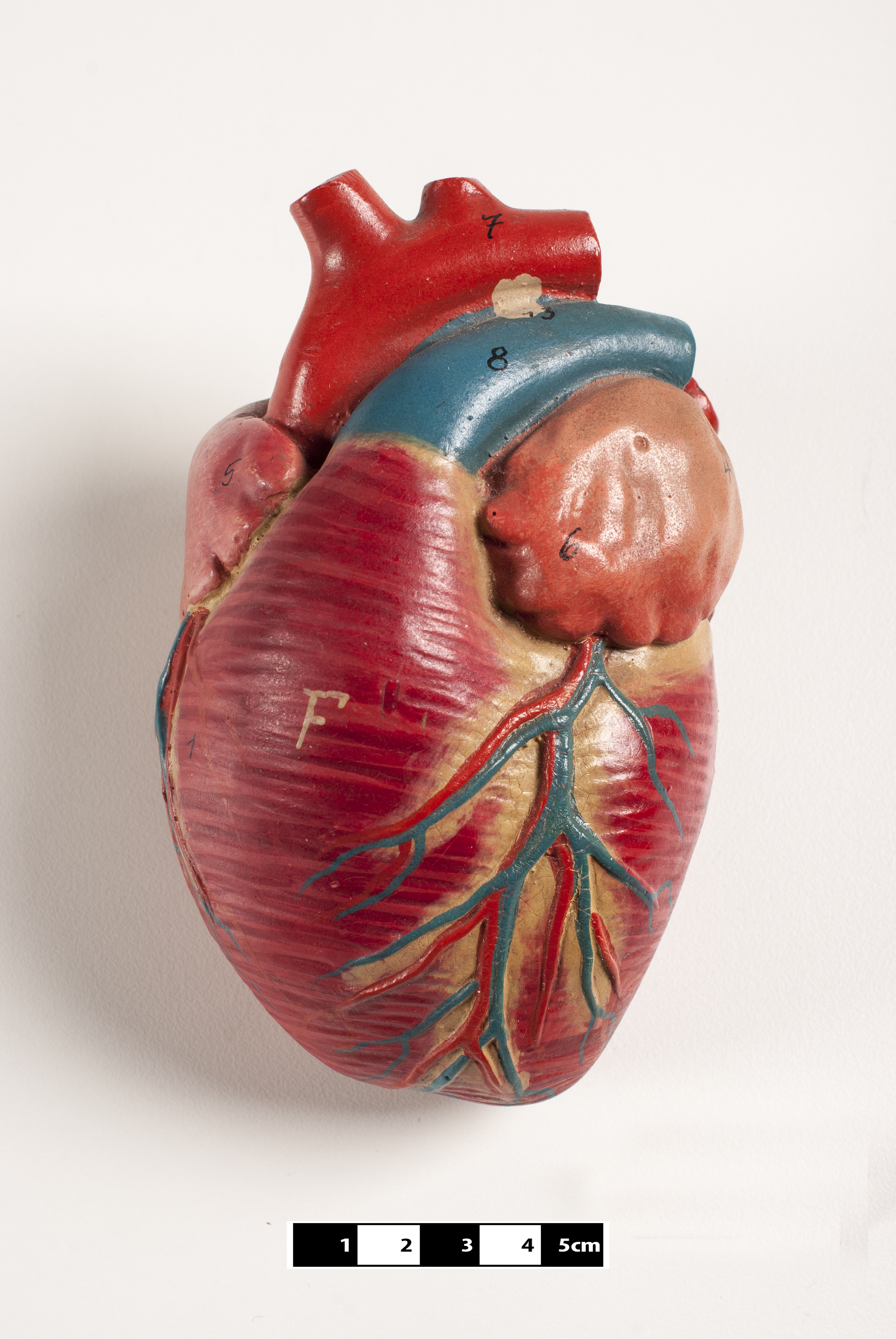 Didactic model of a mammal heart. Teaching model representing different parts of the heart on display at the Museum of Veterinary Anatomy, FMVZ USP. This file was published as the result of a partnership between the Museum of Veterinary Anatomy FMVZ USP, the RIDC NeuroMat and the Wikimedia Community User Group Brasil. This GLAM project is reported. Photography: Museum of Veterinary Anatomy FMVZ USP.